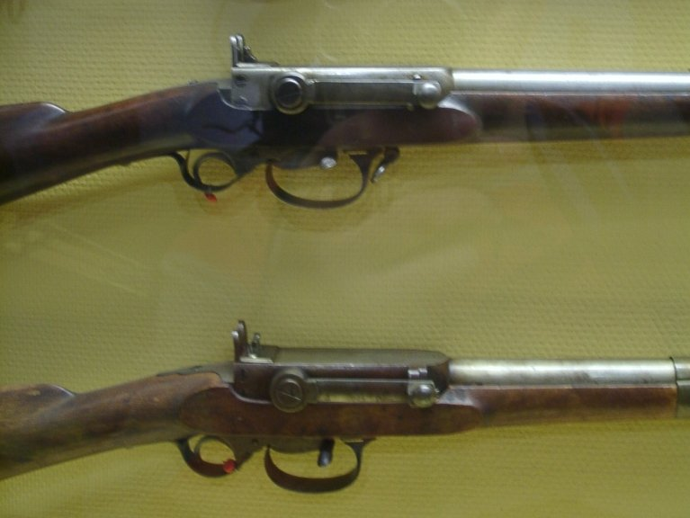 Uploaded at en.wp with description, "The breech end of two Kammerladers, showing the various unique aspects of the action. Image taken at the Norwegian Defence Museum in order to be used on Wikipedia."